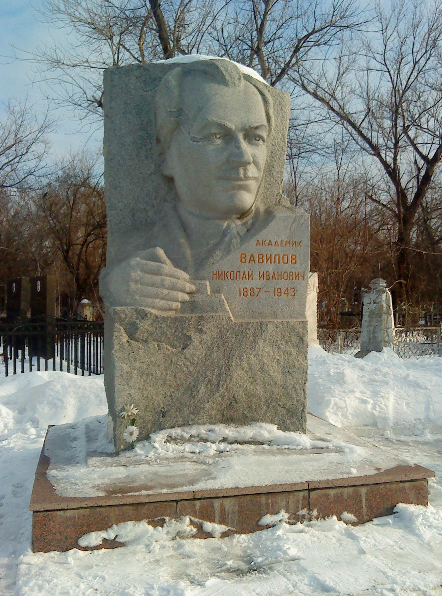 The cenotaph of Nikolai Vavilov on the Voskresenskoe Cemetery's central walkway, Saratov, Russia